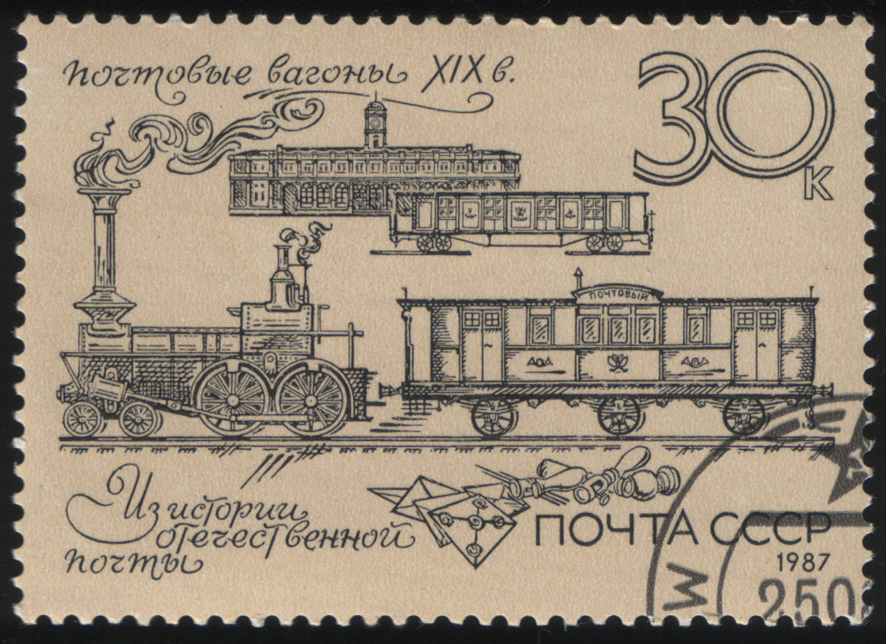 Stamp of USSR. History of domestic post. Railway post offices (19th c.), 1987